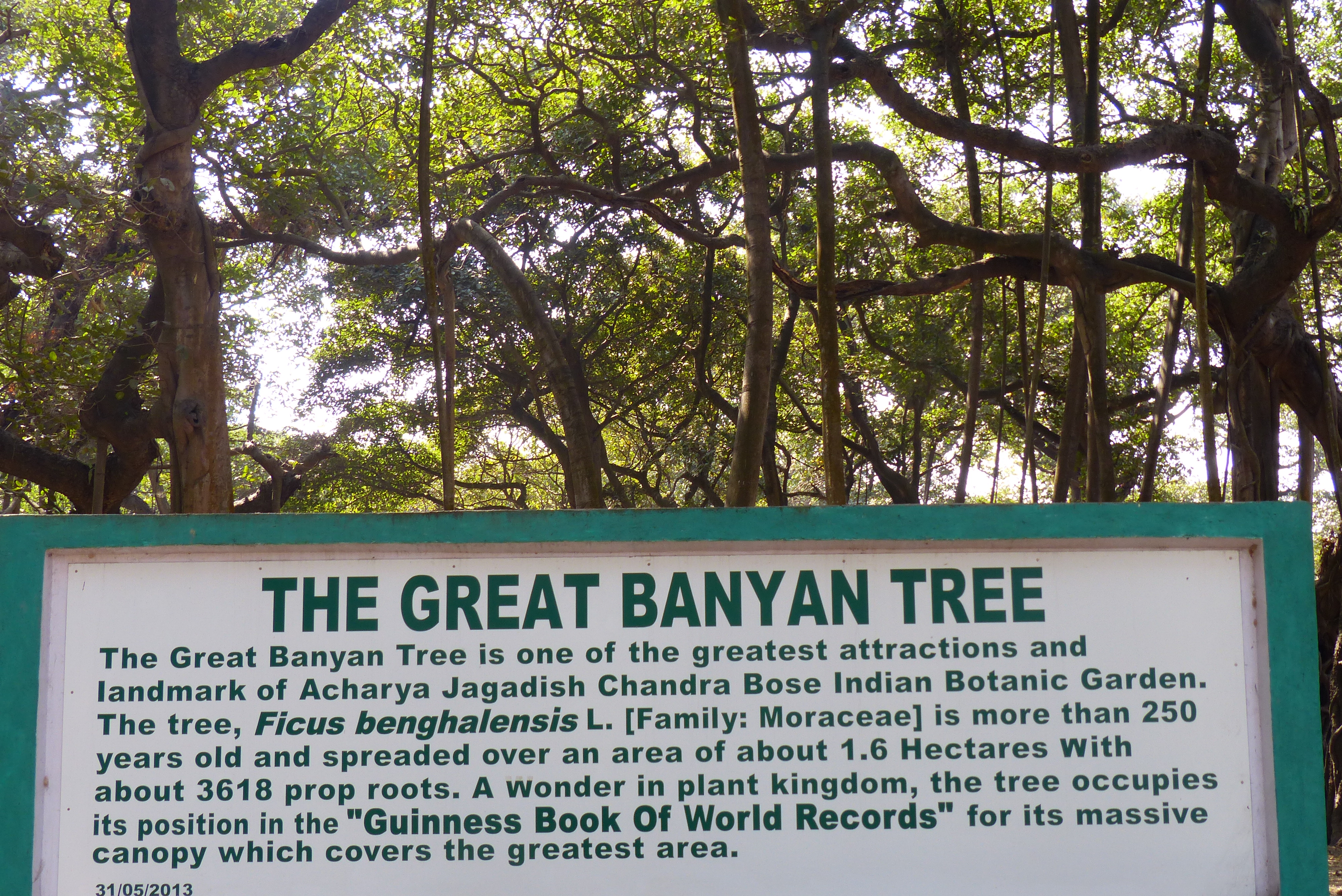 Great Banyan Tree